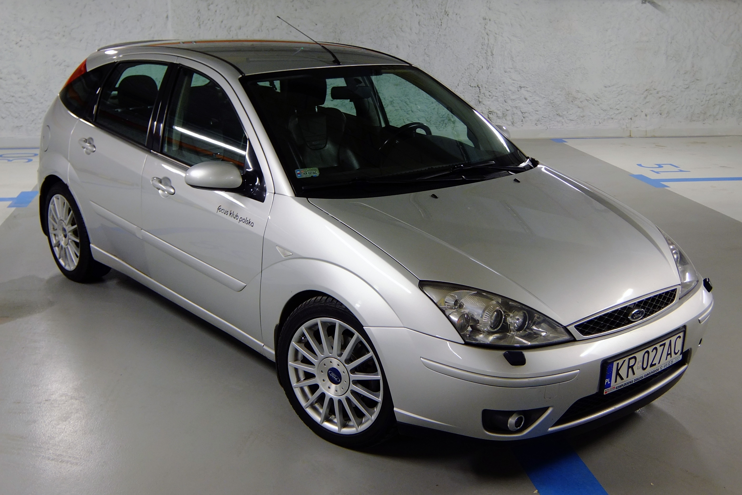 Ford Focus MK1 ST170 Moondust Silver